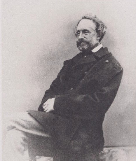 Photogravure reproduction by J.J. Waddington Ltd., portrait of Bingham Baring, 2nd Baron Ashburton (1799–1864), British businessman and politician.